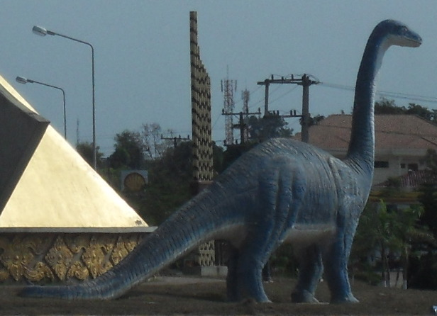 Tangvayosaurus model (cropped version of Rdpt-dino-Savannakhet2010.jpg)